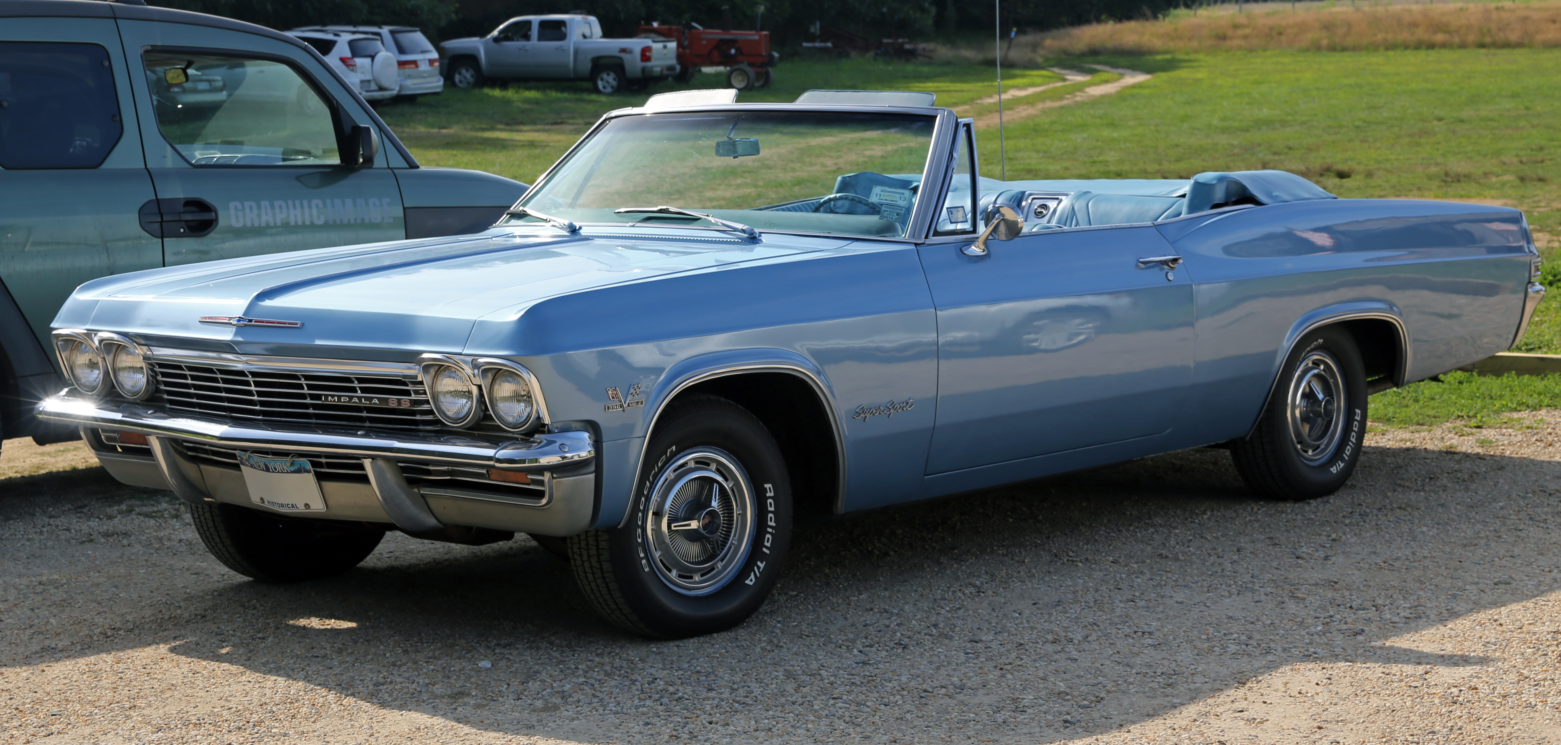 1965 Chevrolet Impala SS Convertible in Amagansett, NY. 396 Turbo-Jet V8, mint condition.